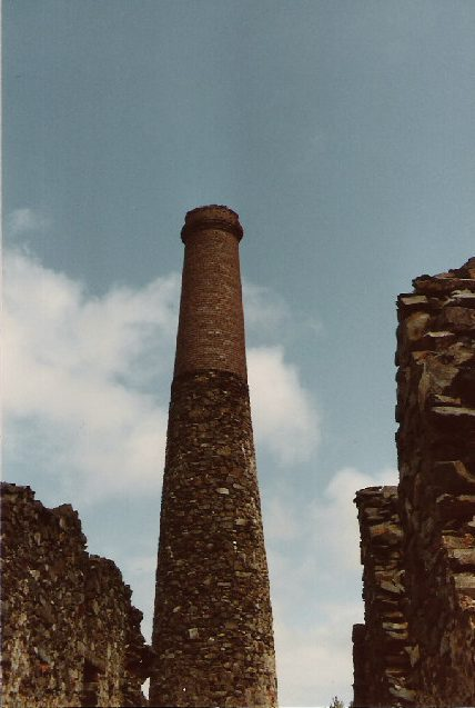 Llanrwst Lead Mine Chimney. Built out of stone with a very distinctive brick top.